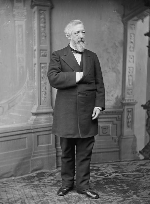 Blaine, Hon. James G. of Maine